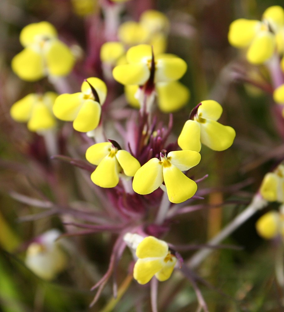 Butter-and-eggs (Triphysaria eriantha) aka Johnny tuck, taken at Jepson Prairie in California.